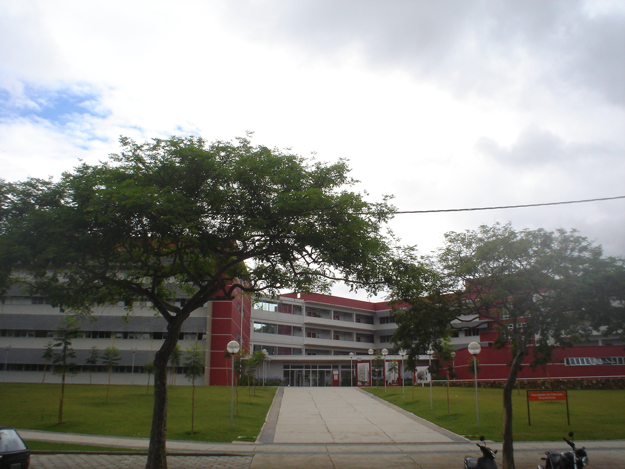 FACE (UFMG) building